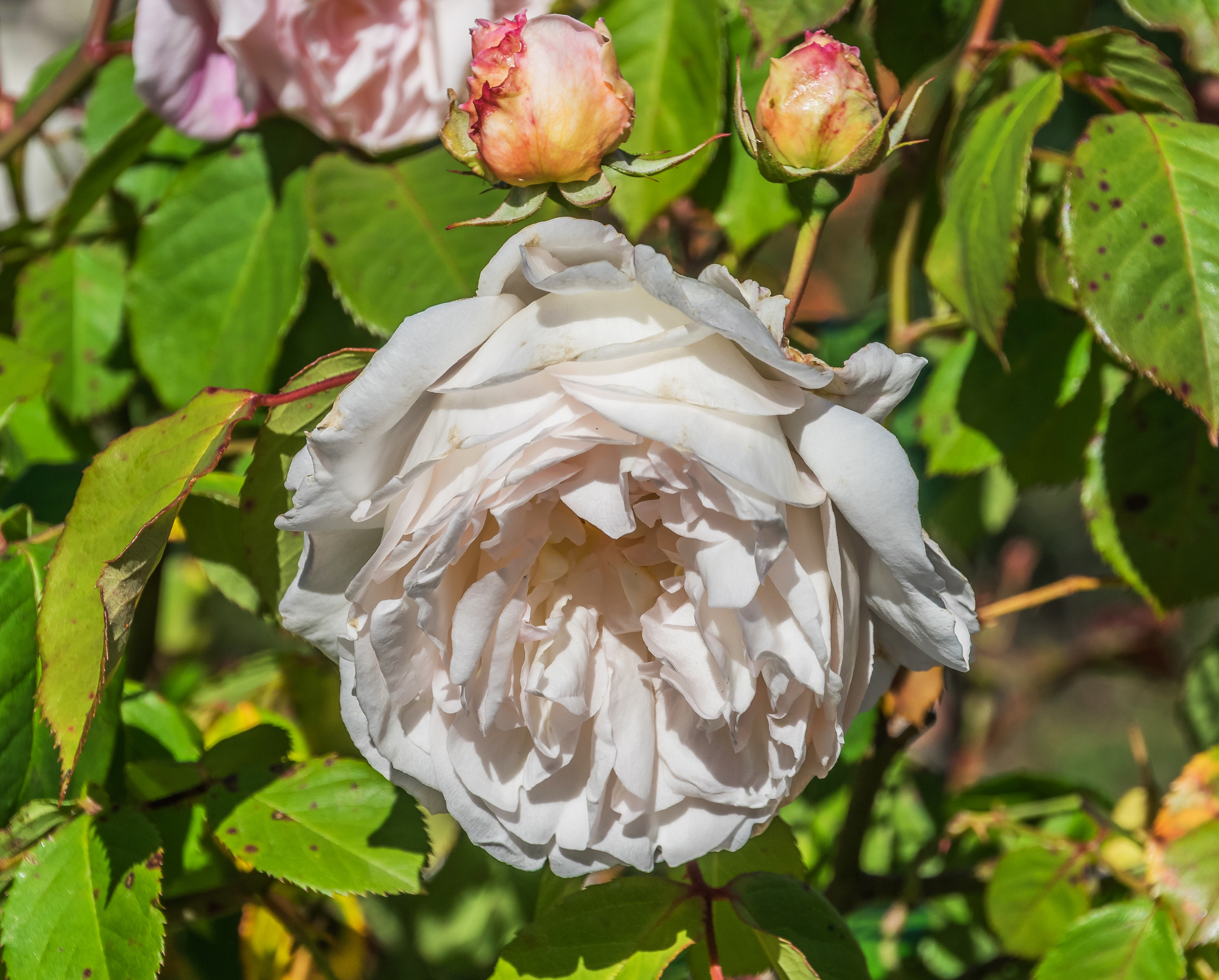 Rosa 'Gruß an Coburg' in Dunedin Botanic Garden, Dunedin, New Zealand